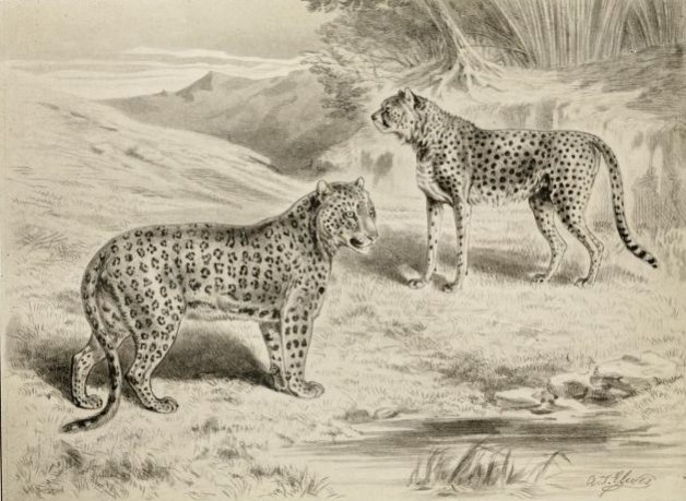 Comparative illustration of a leopard (left) and cheetah (right)